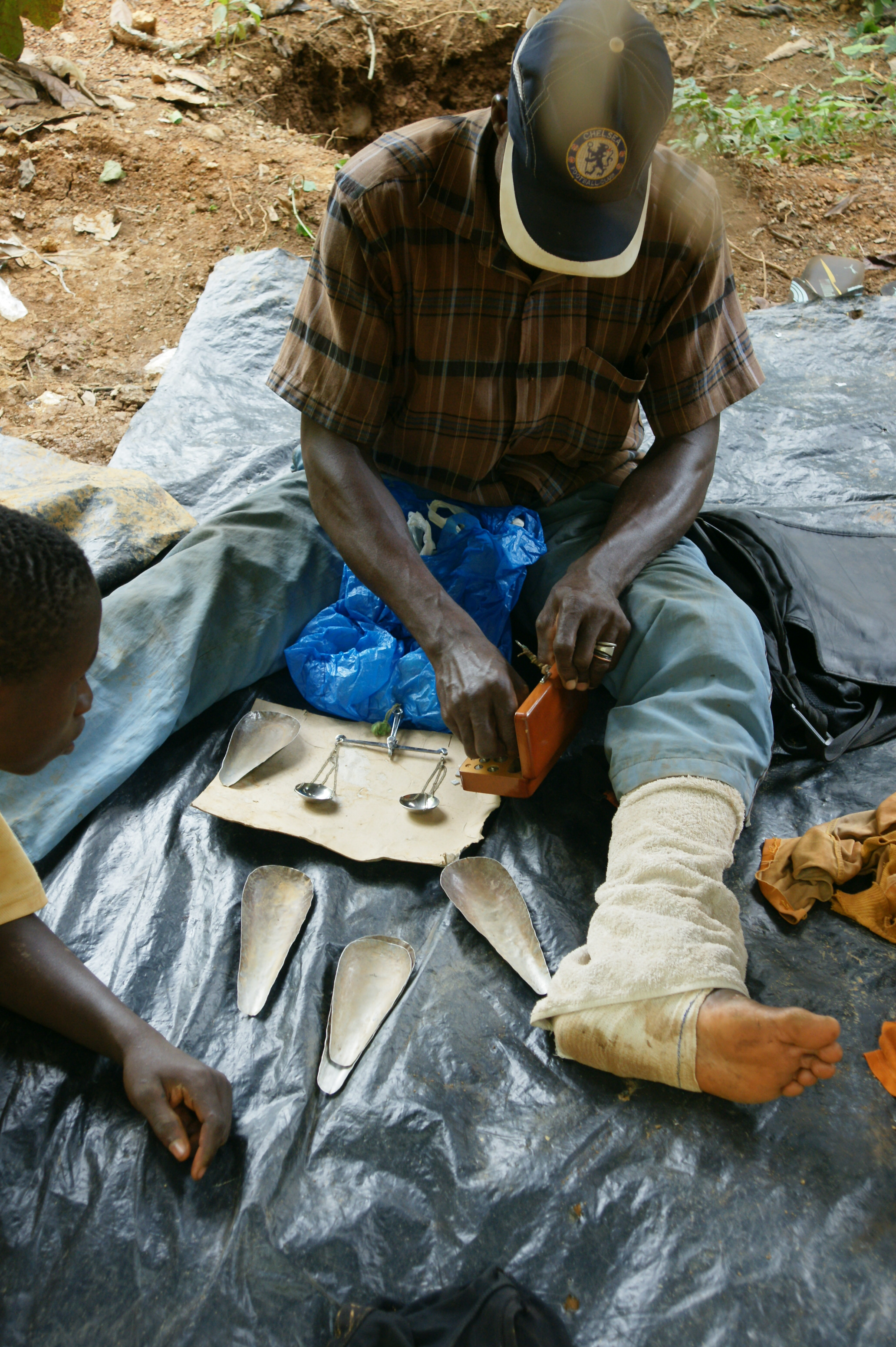 A man weighing gold collected in an traditional Gold Mine at Kossou Dam, Ivory Coast This is an image of "African people at work" from Ivory Coast